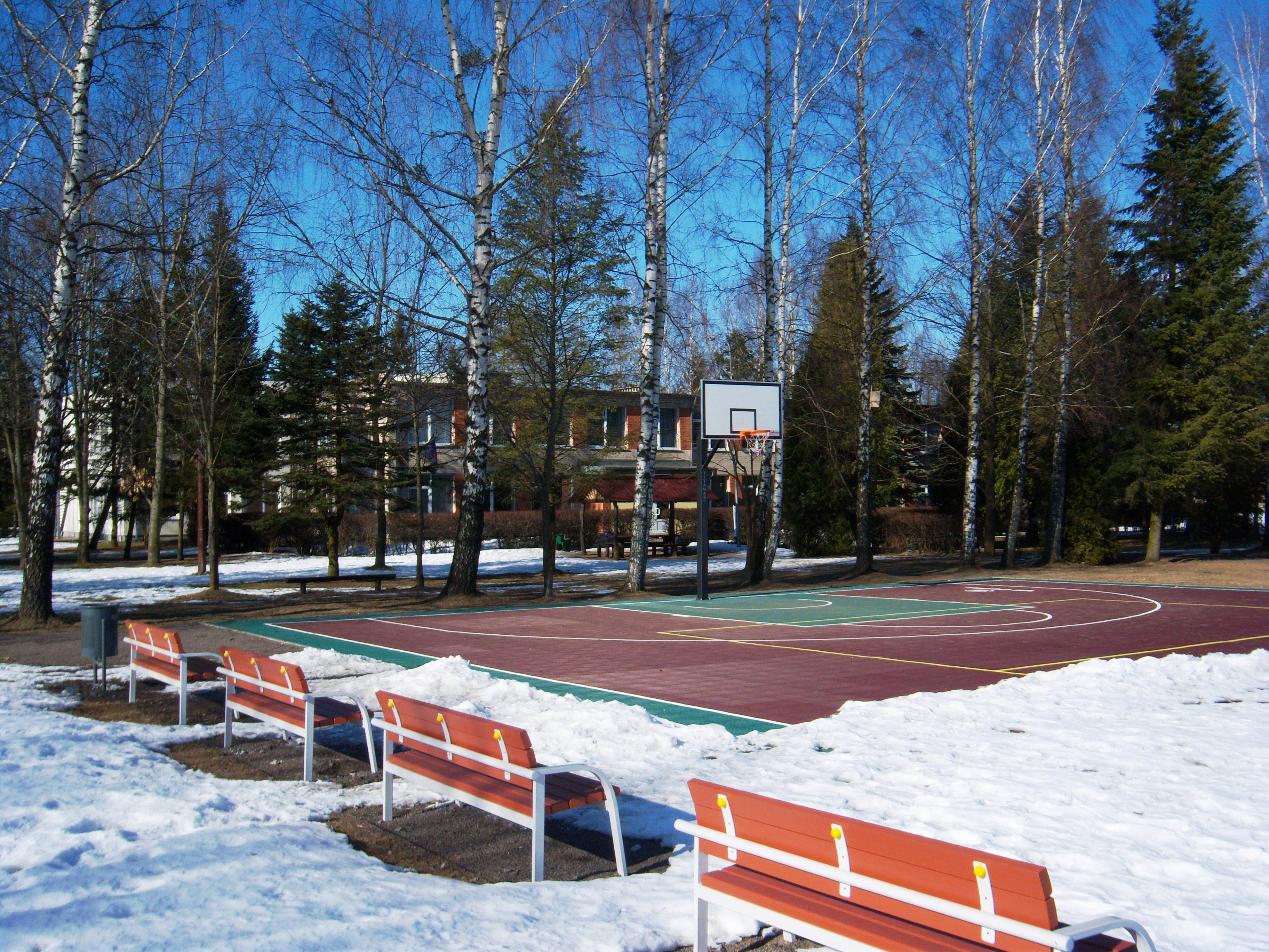 Batniava principal school, Kaunas district, Lithuania